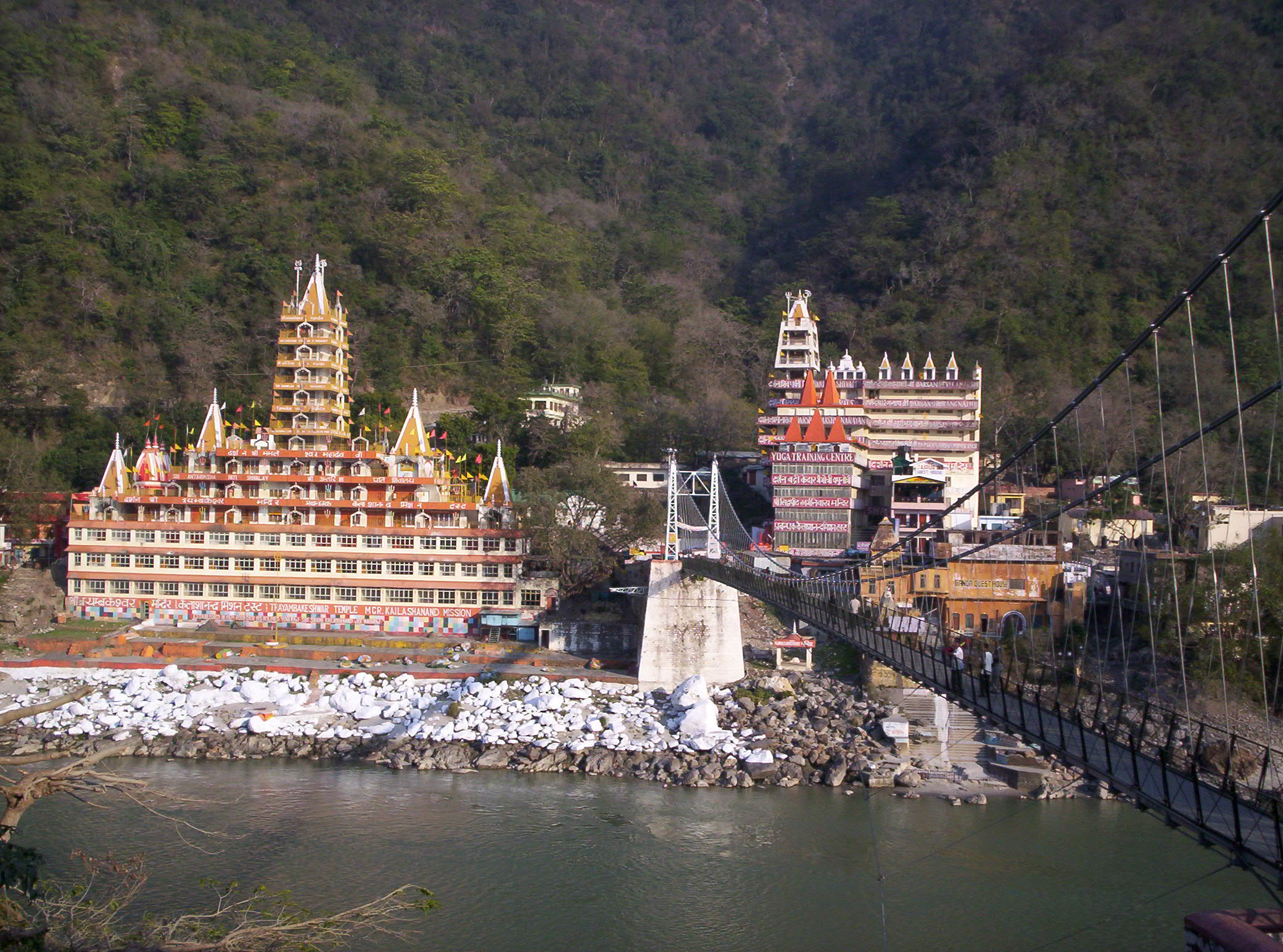 View of Rishikesh across the Laxman Jhula bridge.